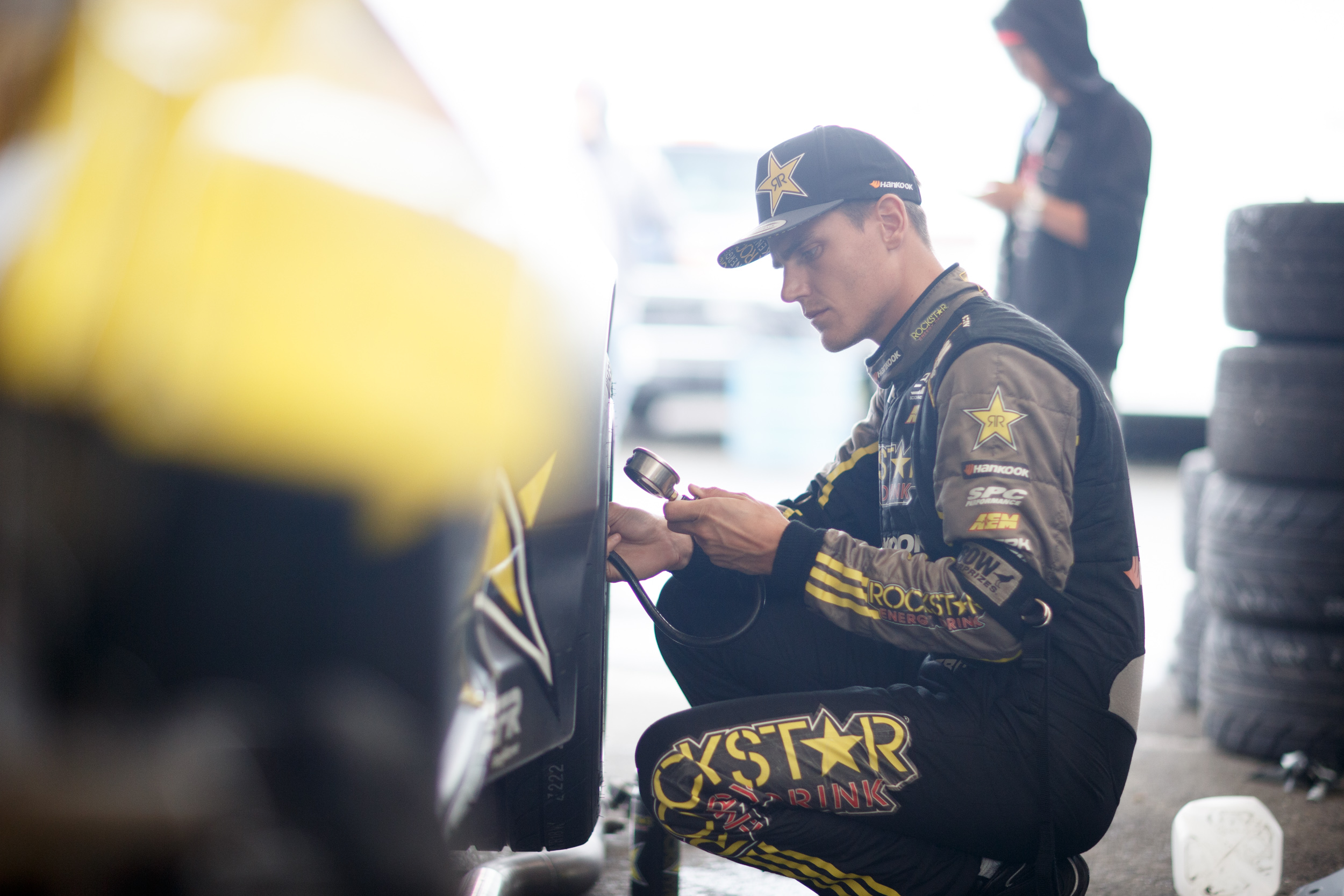 Fredric Aasbo checks tire pressures on the Rockstar Energy Drink Scion tC